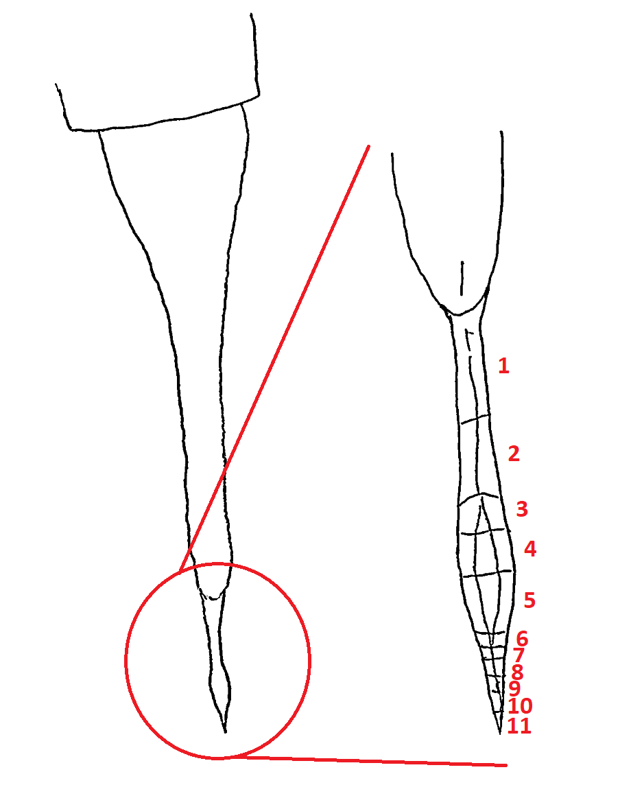 Sketch of the fossil telson of eurypterid Carcinosoma newlini and a close-up of the structure termed the "post-telson" with its supposed segments numbered 1-11. Based on fossils figured in Kjellesvig-Waering (1958)